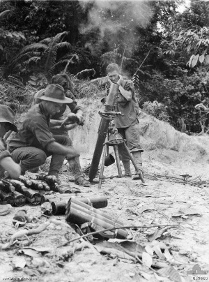 Australian War Memorial (AWM) catalog number 089460. Australian soldiers from the 2/48th Infantry Battalion fire a 3 inch mortar at a Japanese-held ridge on Tarakan Island